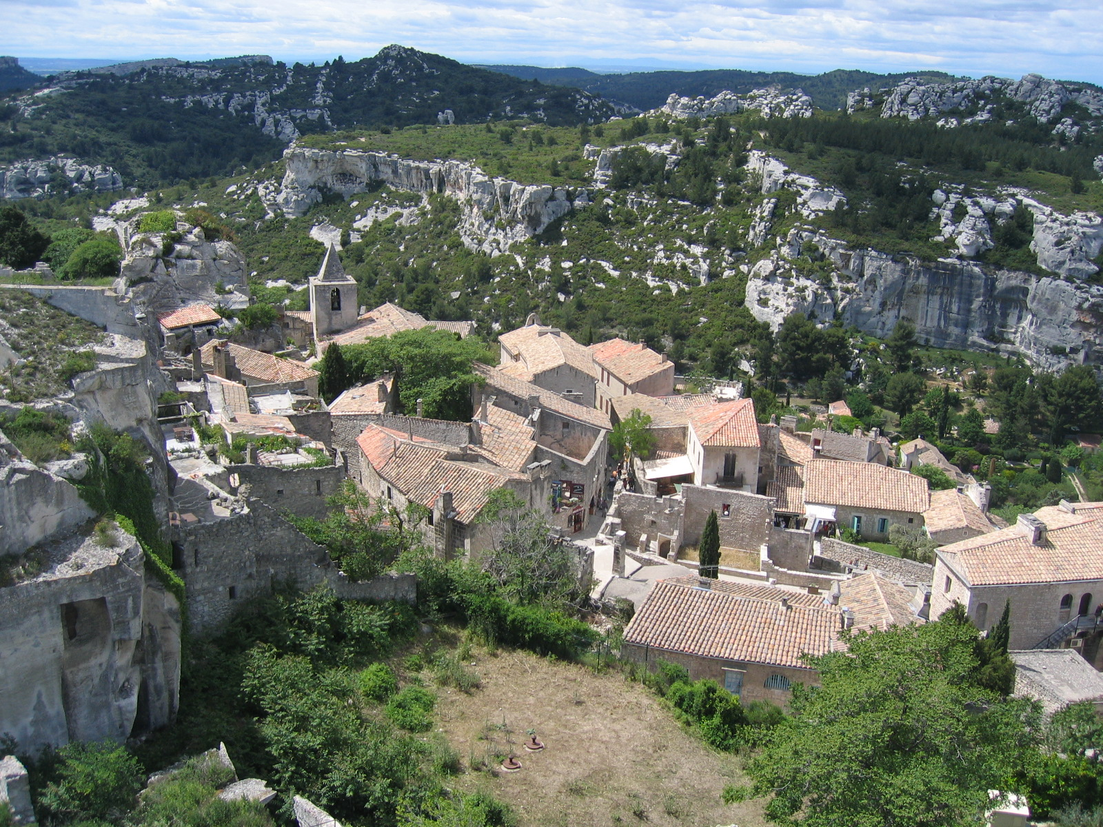 Photo of the commune of Les_Baux-de-Provence, France.